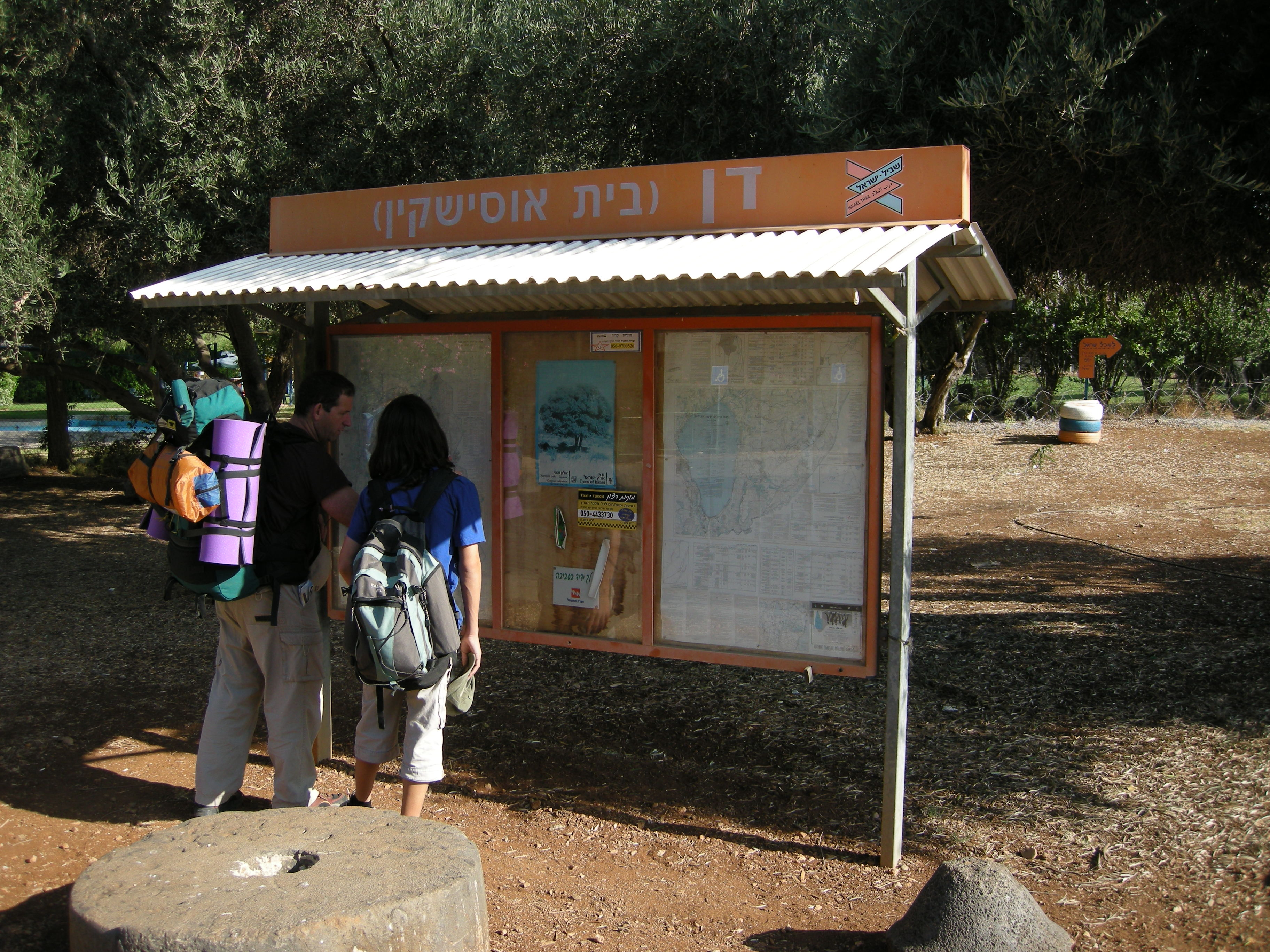 Israel National Trail part 1